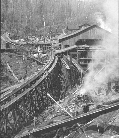 Characteristic sawmill, Cascade Mountains, Oregon, USA.